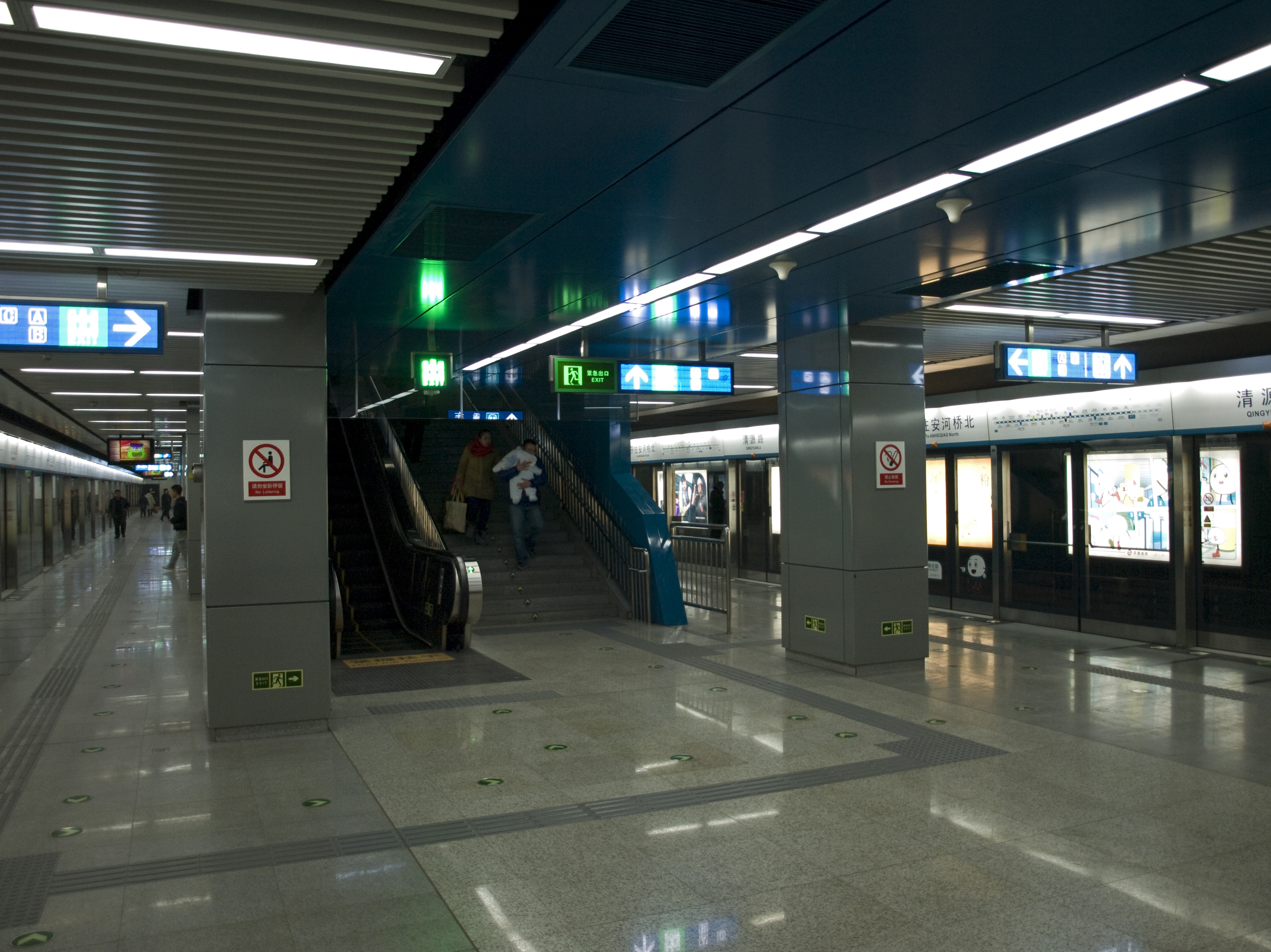 Qingyuanlu station, Beijing Subway